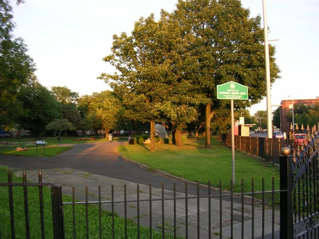 Ardwick Green Park. A rather long and narrow park running alongside the A6 to the SE of Manchester city centre. SJ851972.